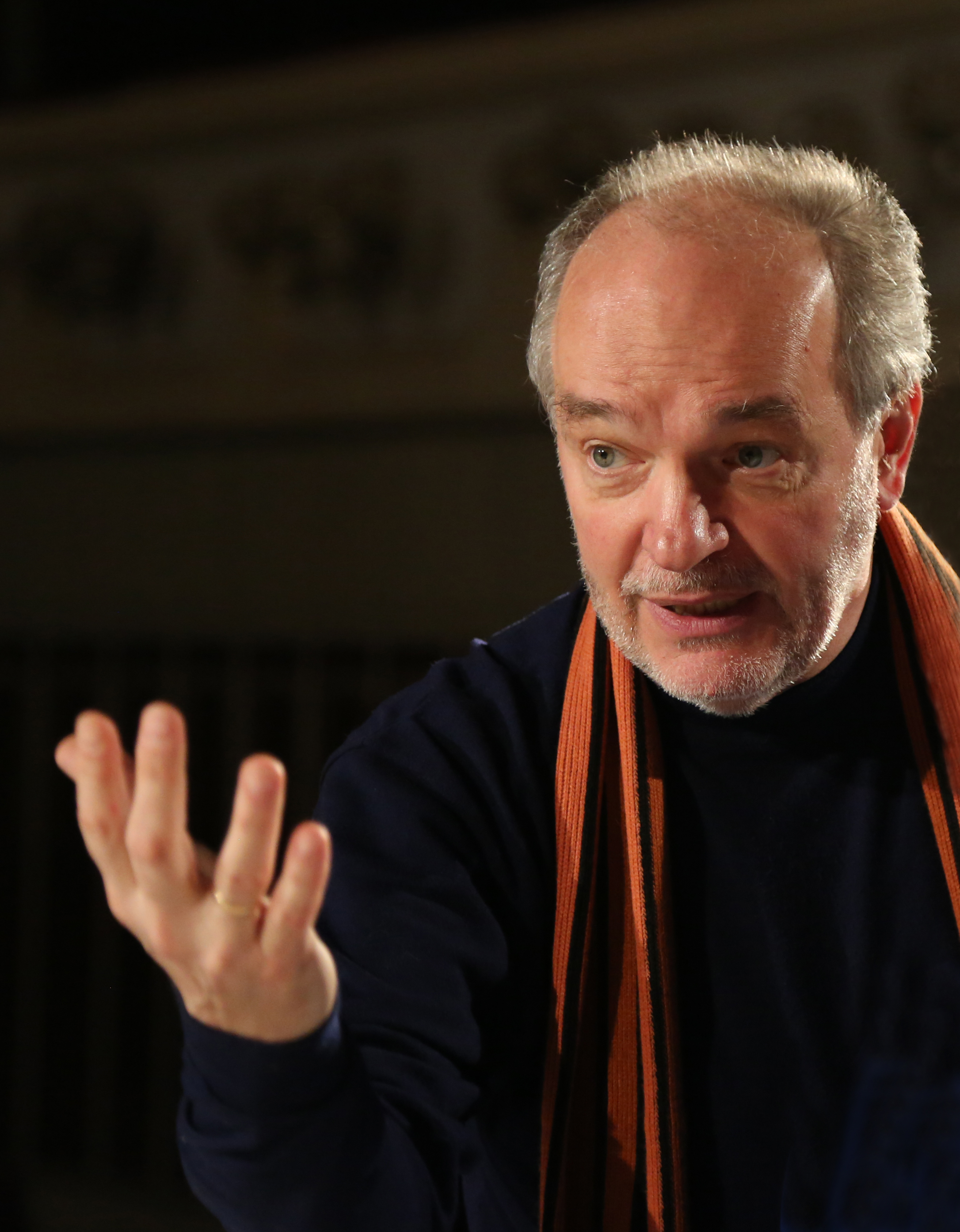 Portrait of Hungarian stage director András Kürthy during a rehearsal of L'elisir d'amore by Gaetano Donizetti, in 2015, in the Craiova Opera.